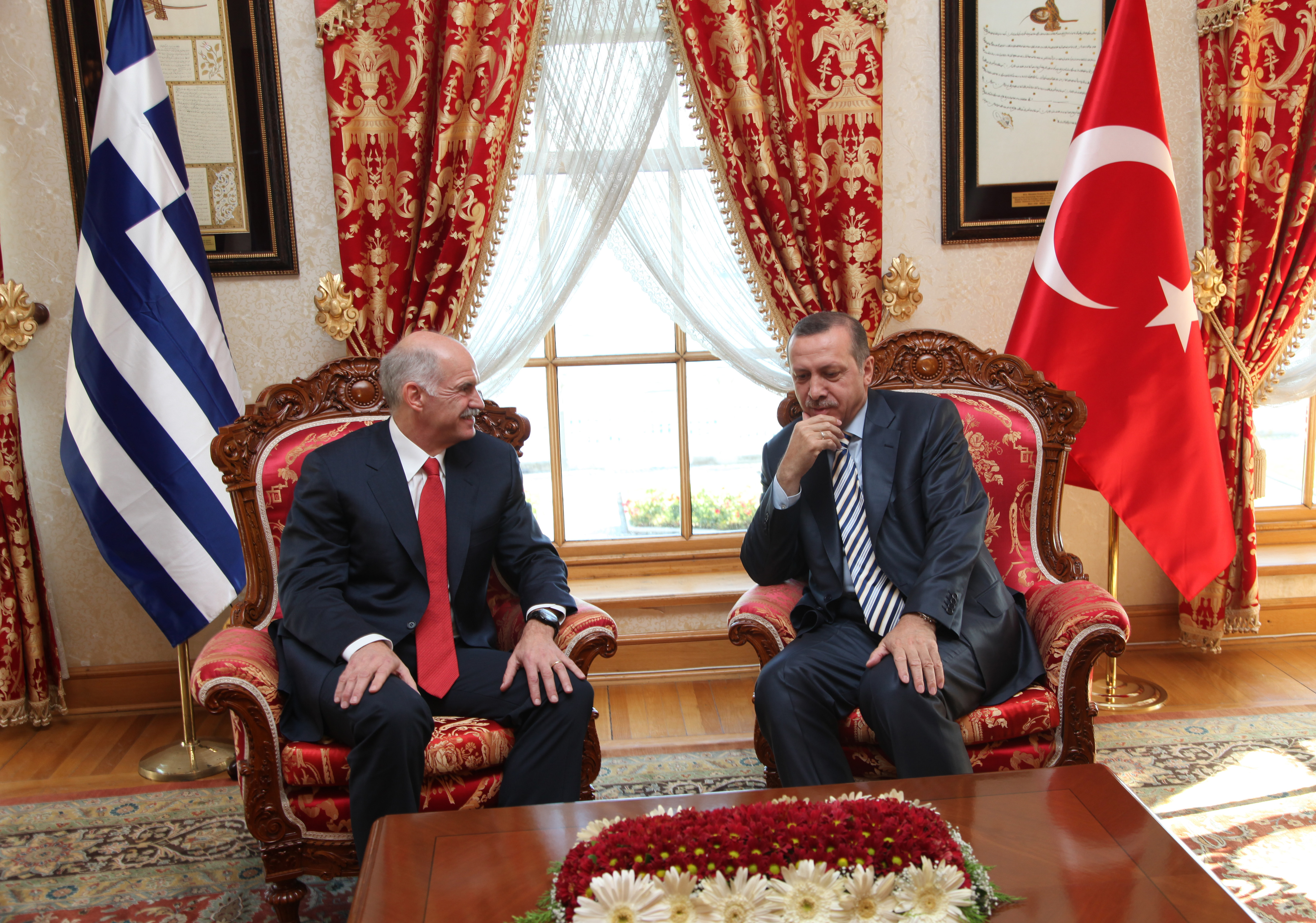 Turkish Prime Minister Recep Tayyip Erdoğan and Greek Prime Minister George Papandreou, Turkey November 2009.